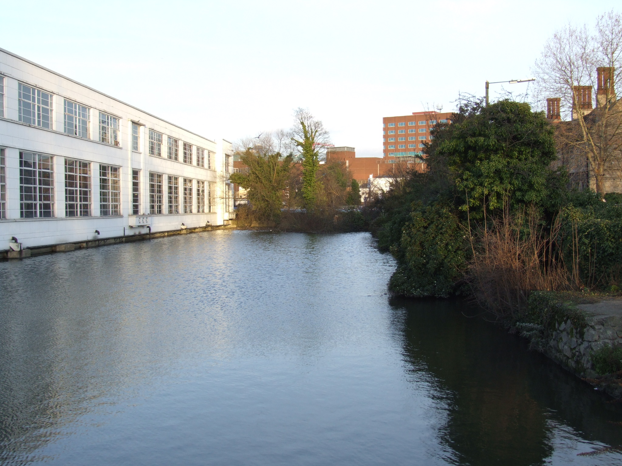 The River Len flows into the River Medway in a culvert at Maidstone in Kent by the Archbishops Palace. The millpond at Mill Street taken from the Bishops way bridge. To the right is Palace Avenue an new road built 1904. - Google Maps - Google Earth